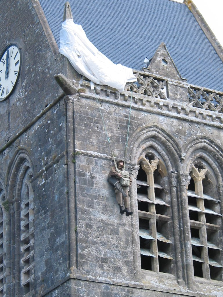 Monument to John Steele on the belltower of the church of Saint-Mère-Église, Normandy, France